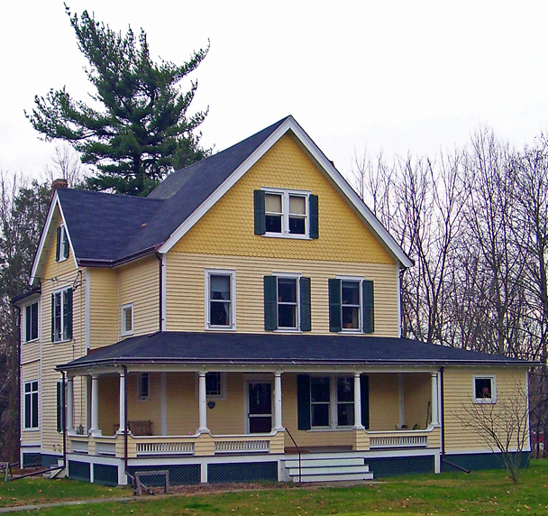 Photographed by Daniel Case 2006-12-06